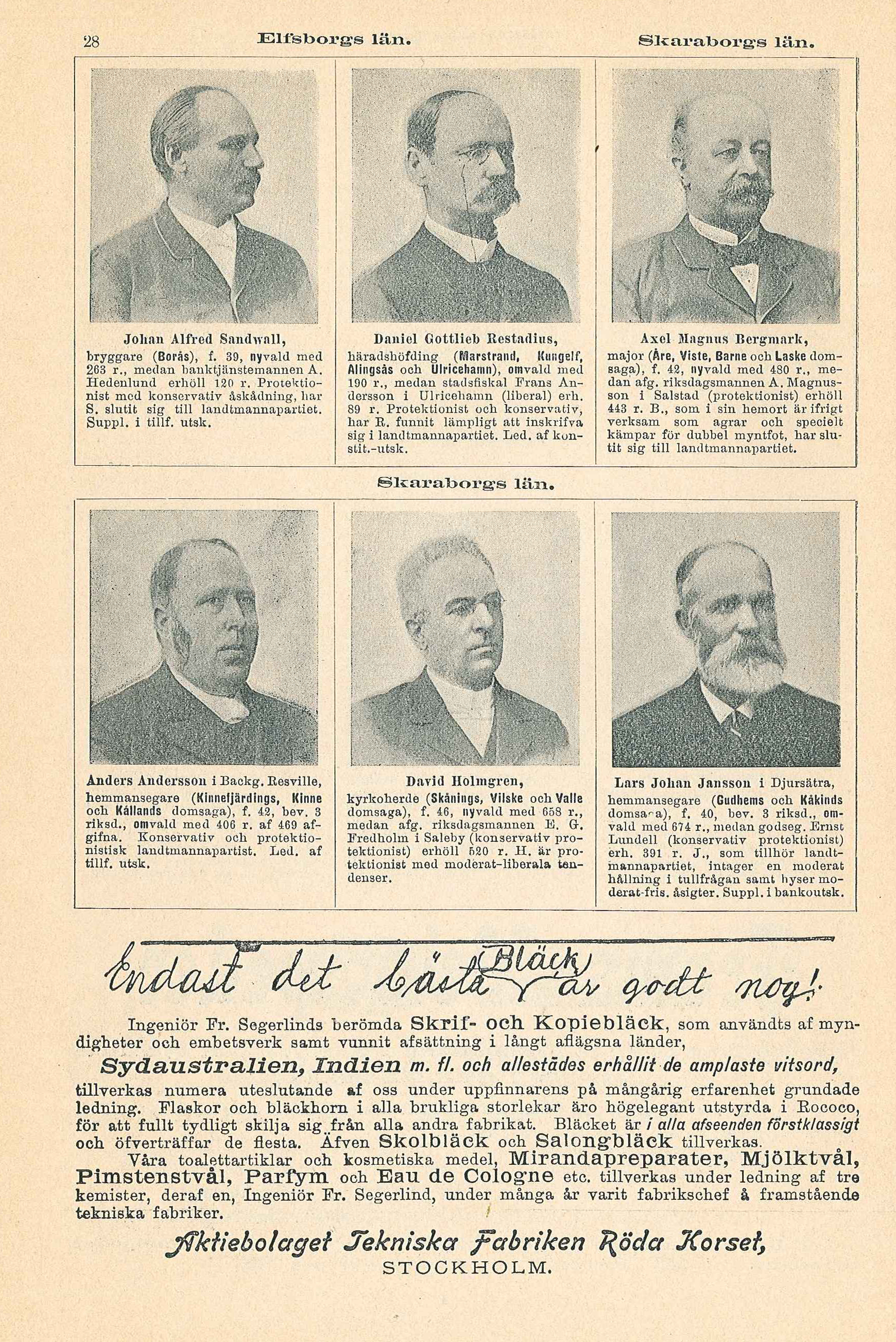 Page 28 of an album featuring portraits of all the members of the second chamber of the Swedish parliament (Sveriges riksdag) elected in 1897. This page featuring parts of the members representing the counties of Älvsborg and Skaraborg.